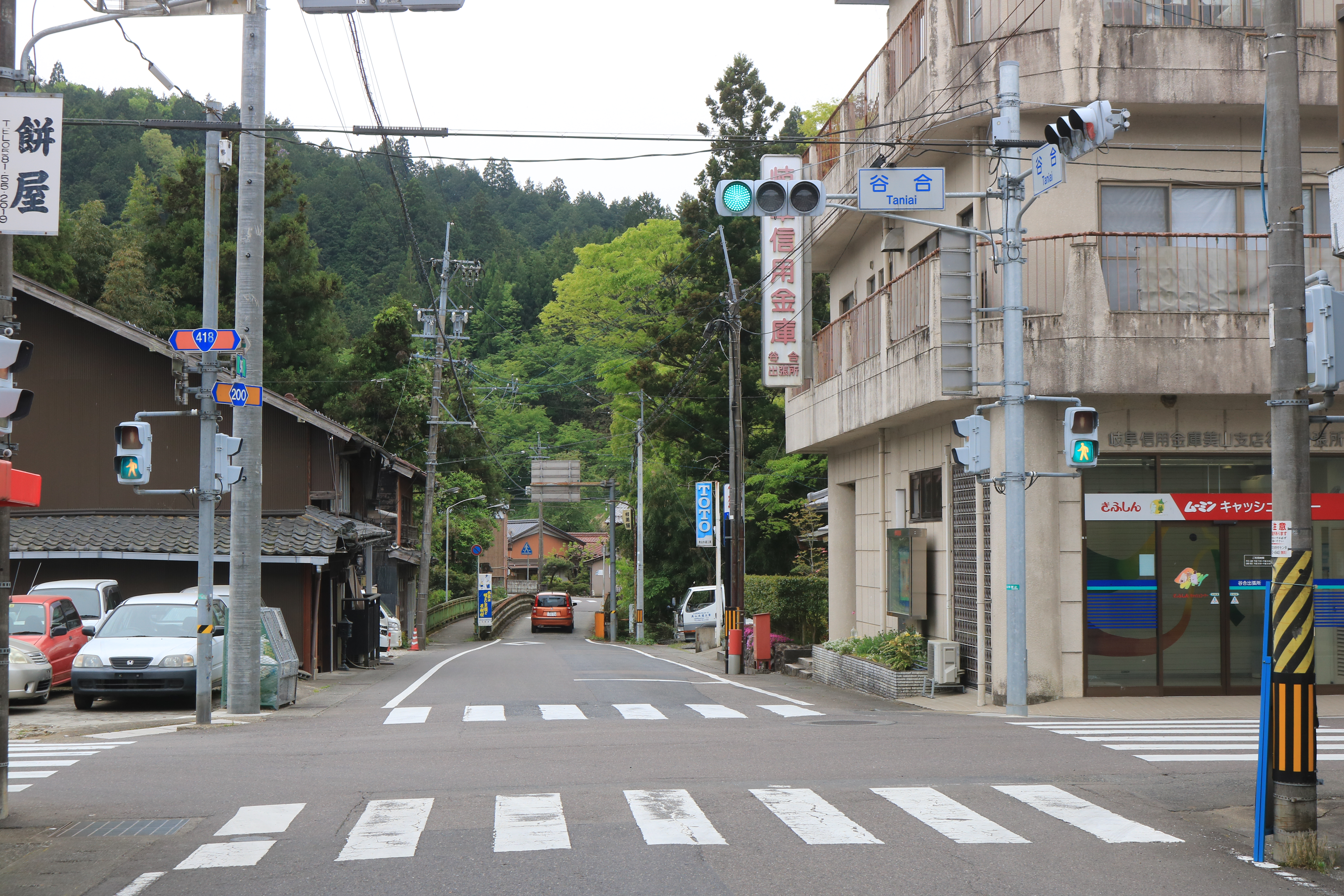 Gifu Prefectural Road Route 200 and Route 418 in Taniai, Yamagata, Gifu prefecture, Japan.